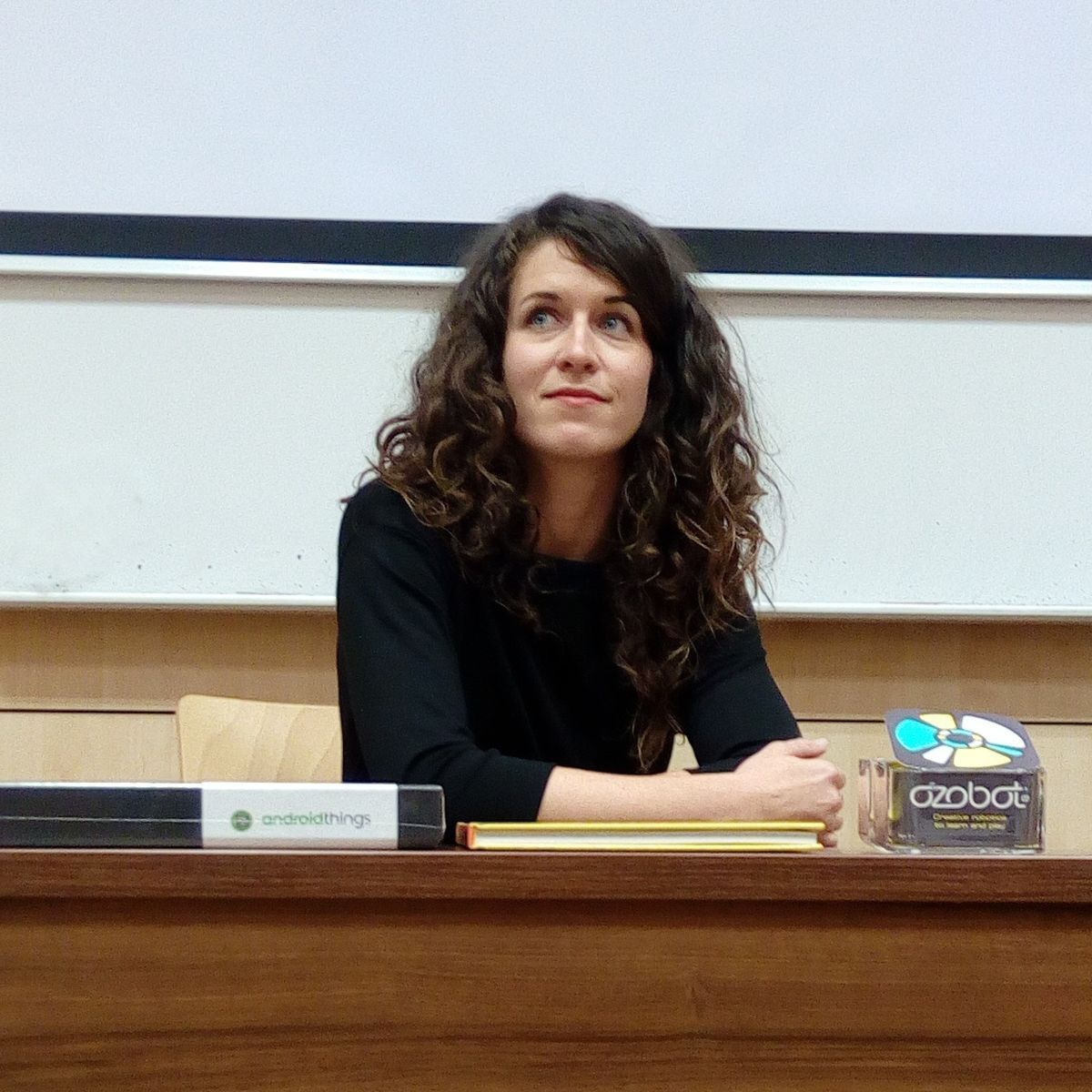 Dita Přikrylová at the University of South Bohemia, České Budějovice, on 6 December 2017.